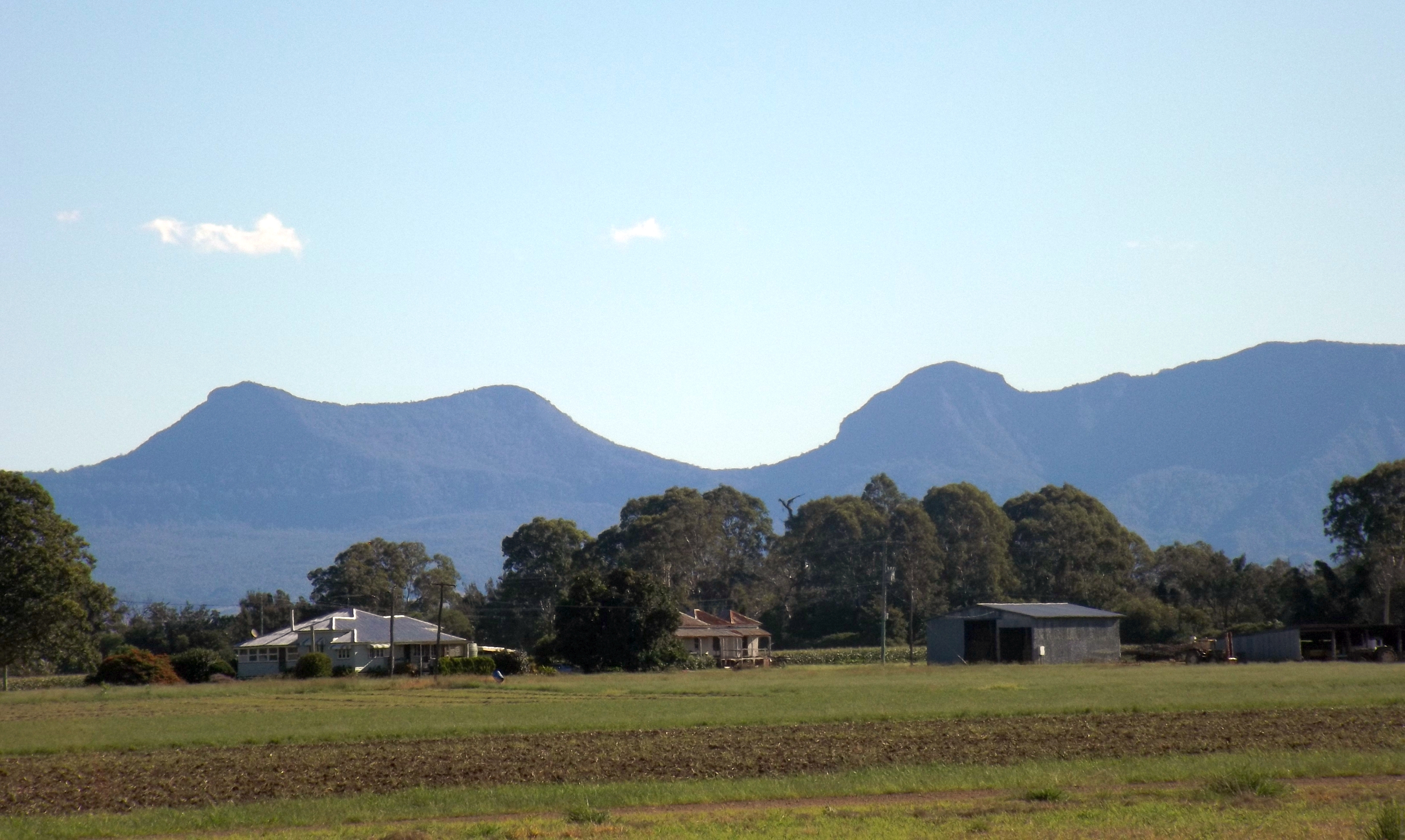 Cunninghams Gap as seen from Kents Lagoon, Scenic Rim, Queensland, Australia.